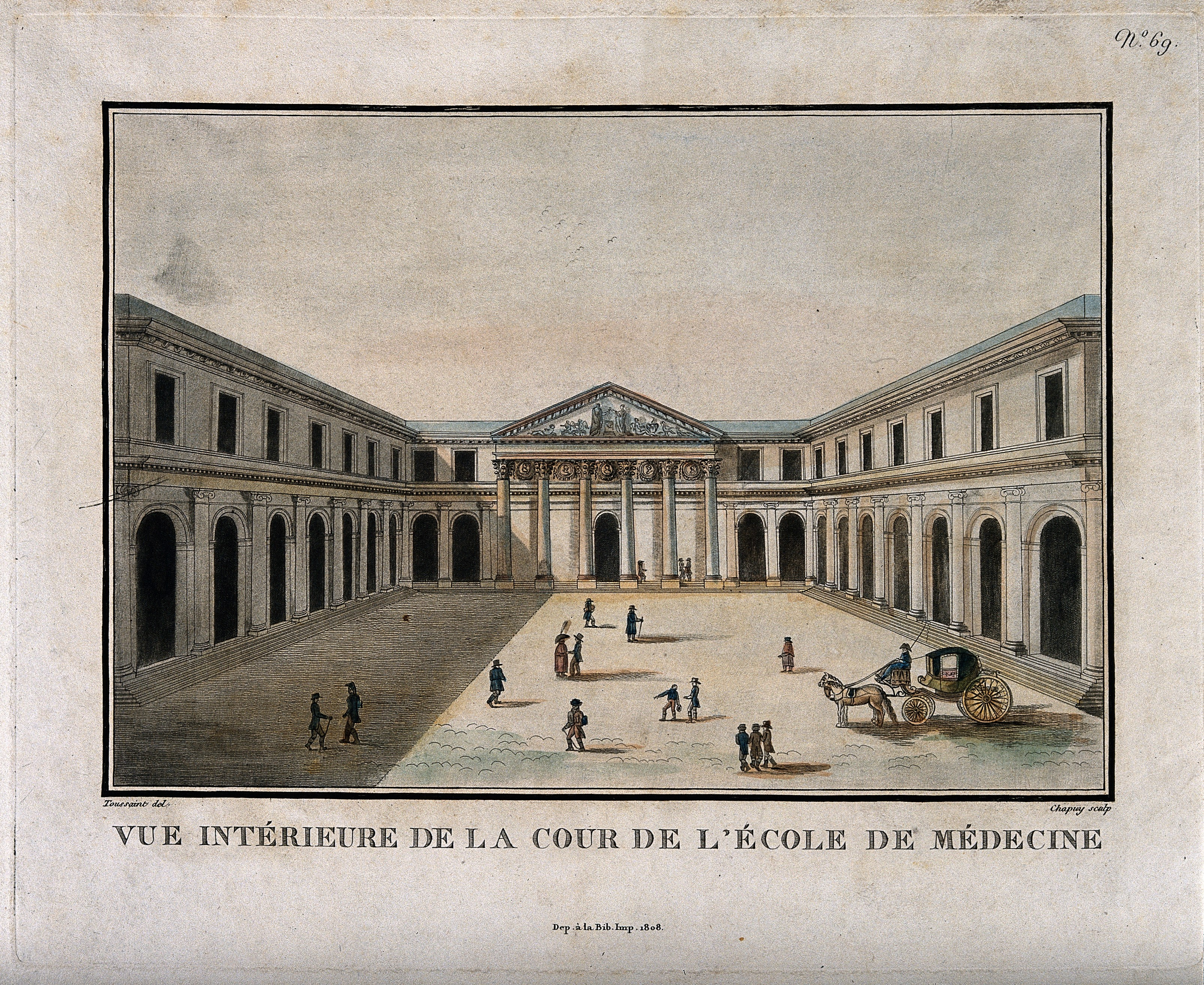 School of Medicine, Paris: the interior court. Coloured etching by J.B. Chapuy, 1808, after H. Toussaint. Iconographic Collections Keywords: Jacques Gondoin; Jean Baptiste Chapuy; Henri Toussaint